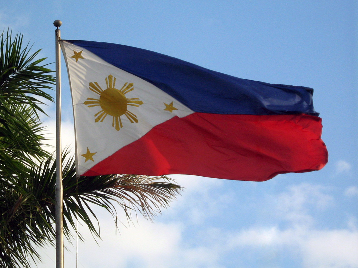 Flag of the Philippines outside the Philippine International Convention Center